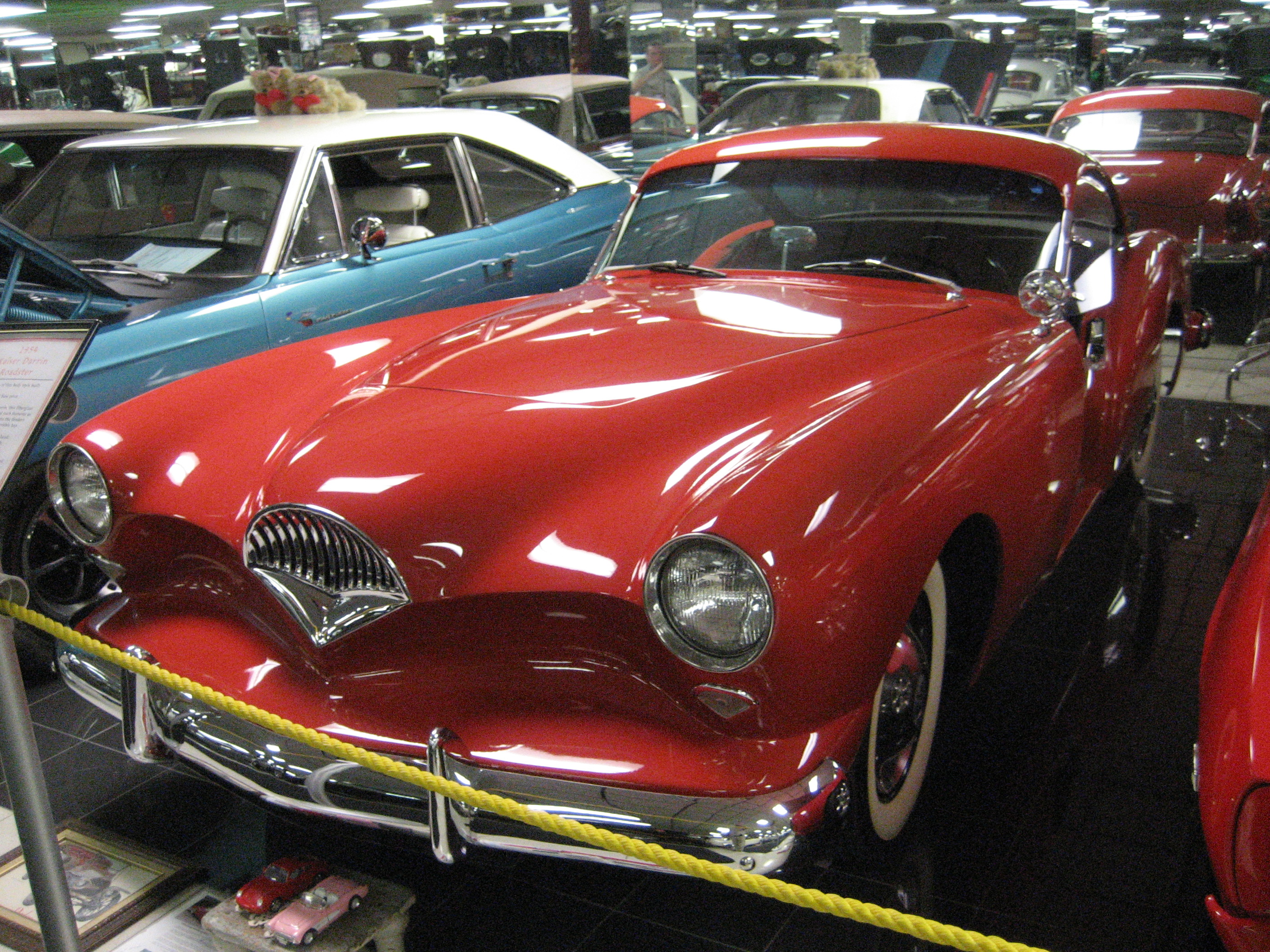 1954 Kaiser Darrin Roadster on display at Tallahassee Automobile Museum .